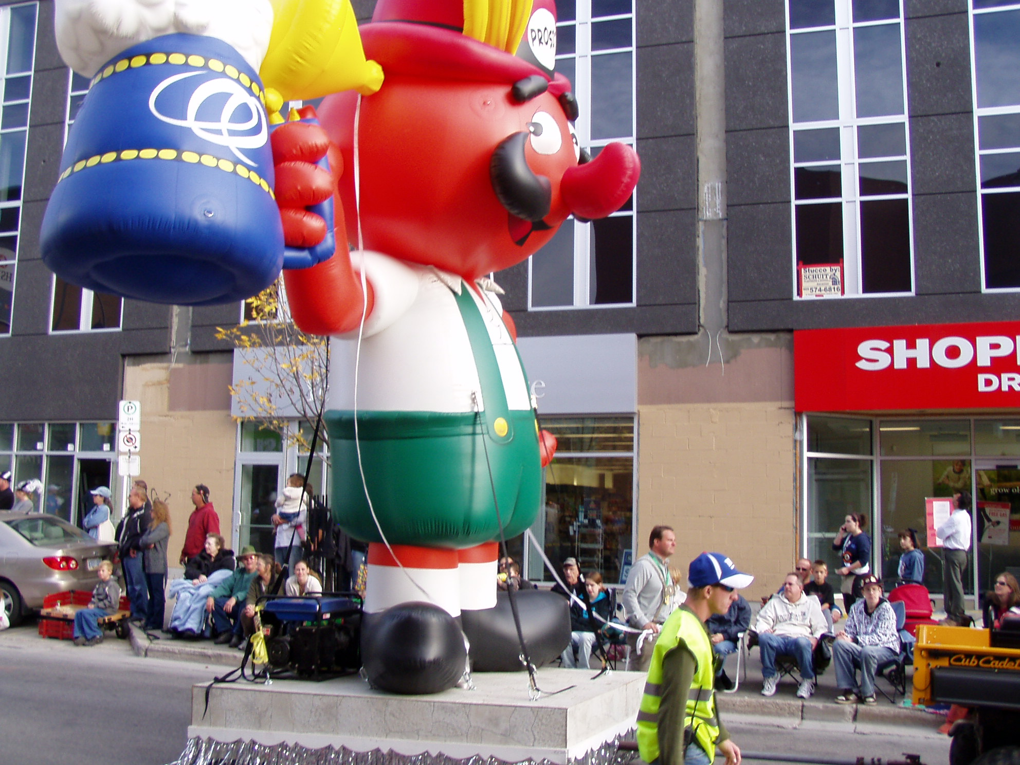 Photo of Onkel Hans from the Oktoberfest parade of Kitchener-Waterloo (Ontario Canada). 40th anniversary 2008.